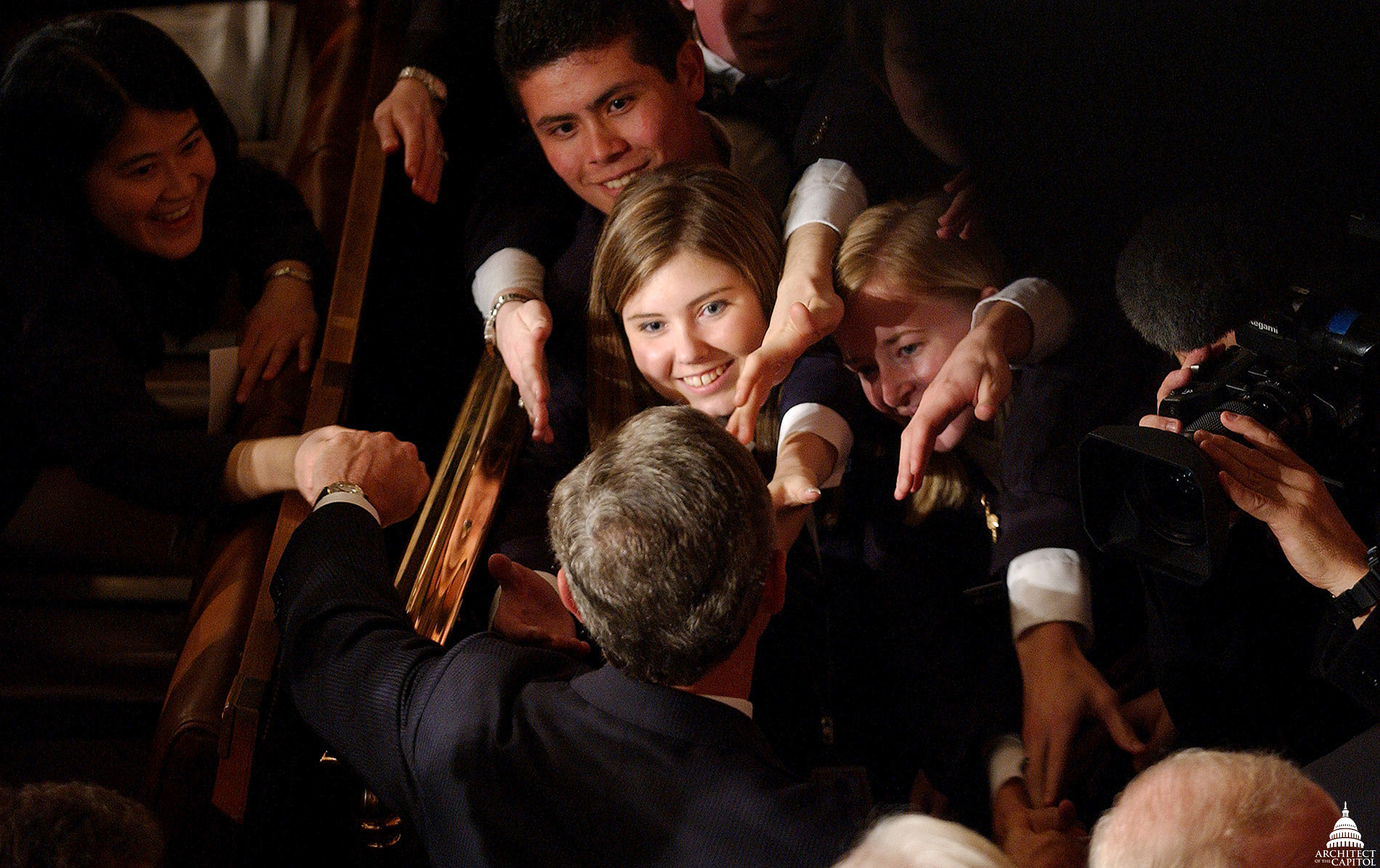 President George W. Bush delivers the State of the Union Address.